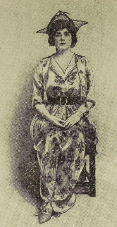 Mrs Patrick Campbell in costume as Eliza Doolittle in Act III of Pygmalion. Yellow taffeta dress with Futurist print of crimson roses designed by Madame Handley-Seymour, London.